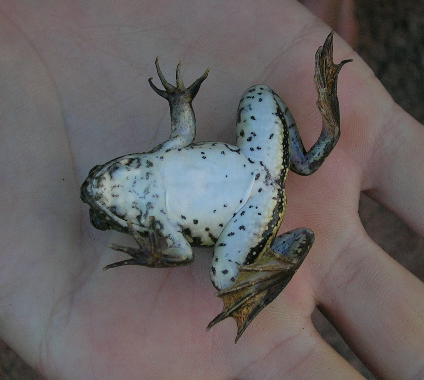 Euphlyctis cyanophlyctis from Thiruvannamalai, Tamil Nadu, India